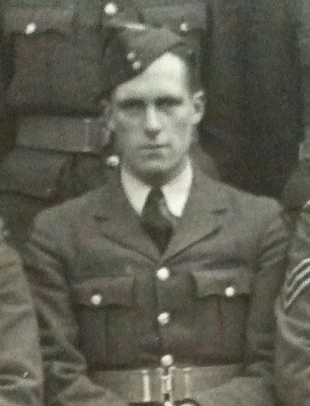 Former Footballer Sid Clewlow